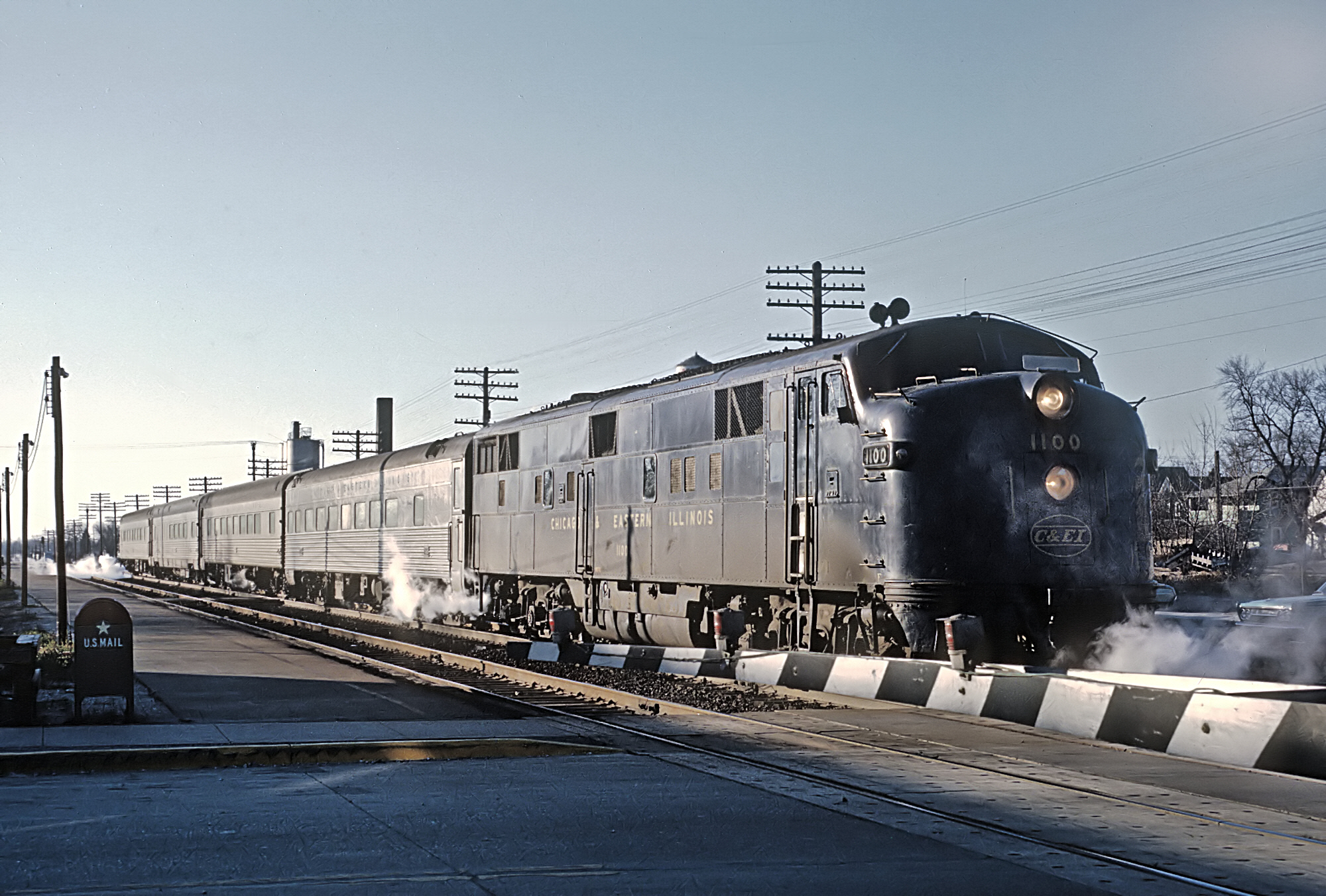 Photo 1